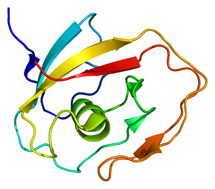 Structure of the COCH protein. Based on PyMOL rendering of PDB 1jbi.